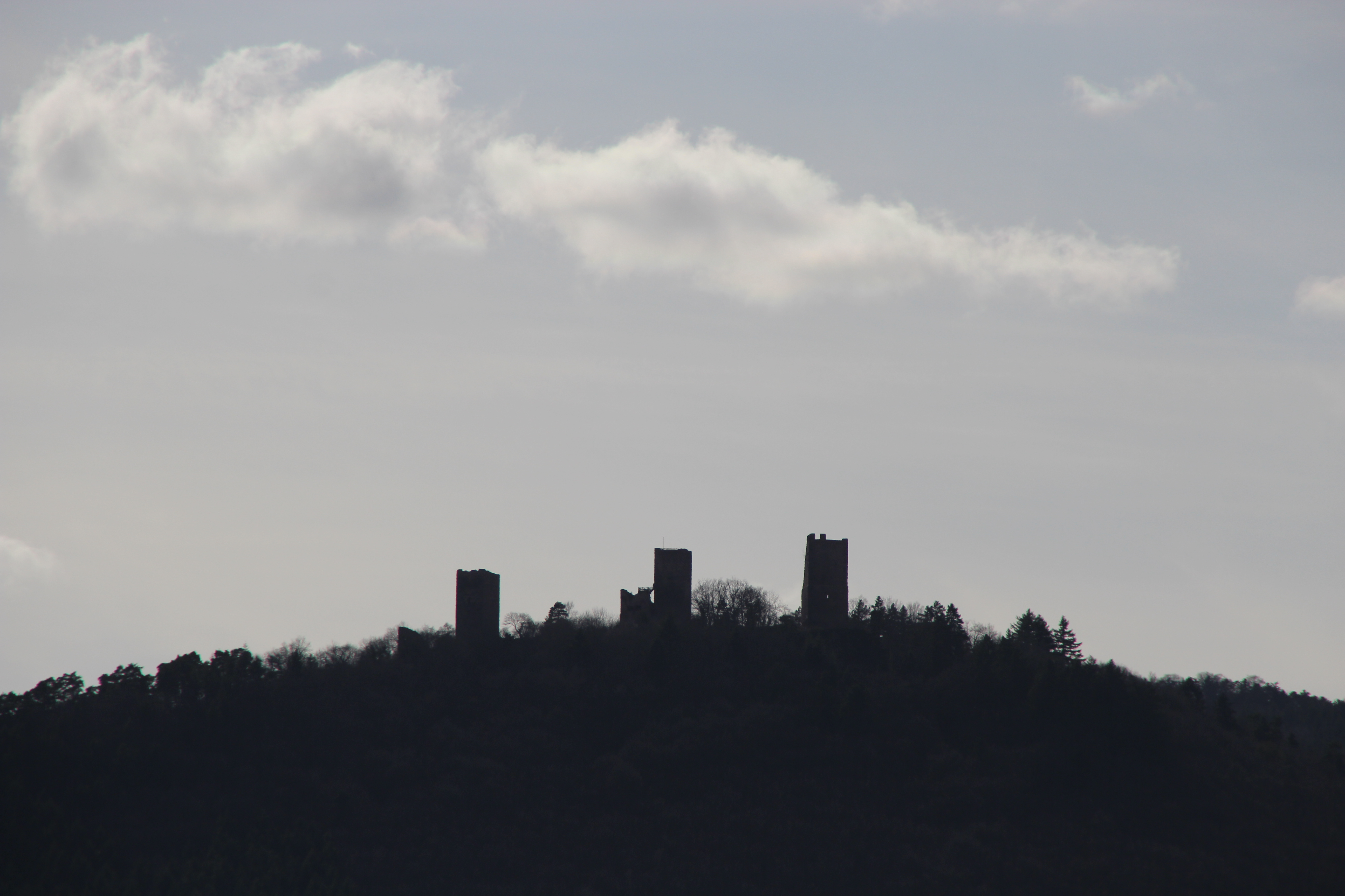 Picture taken in Eguisheim, France.